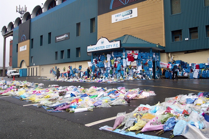 Picture of the tributes left at the front gates of Maine Road (home of Manchester City FC) for Cameroonian footballer Marc-Vivien Foé.